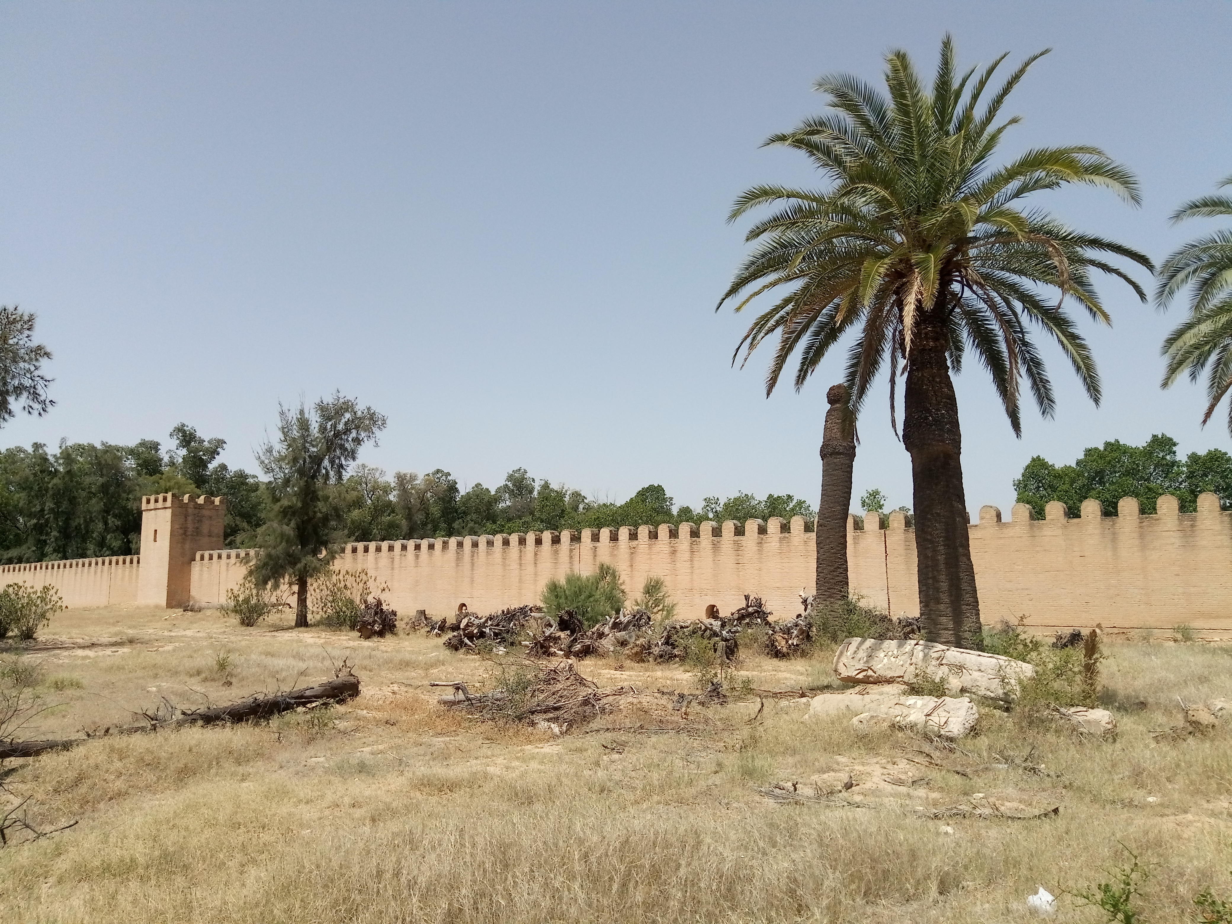 Raqqada Palace's wall.